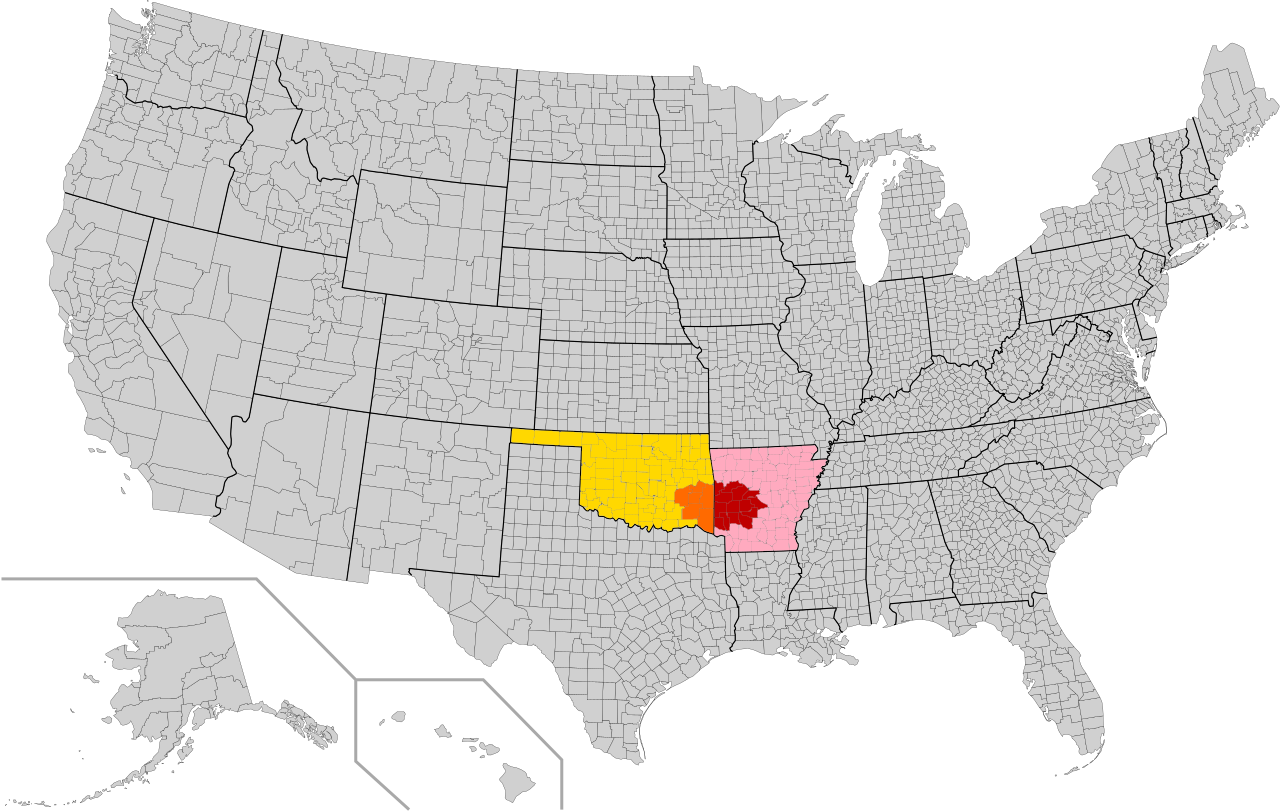 Counties in red are on the Arkansas side of the Ouachita mountains, while counties in orange are on the Oklahoma side. The rest of the state of Arkansas is in pink, and the rest of the state of Oklahoma is in yellow. Due to the way the county borders are drawn, it may not be entirely accurate.